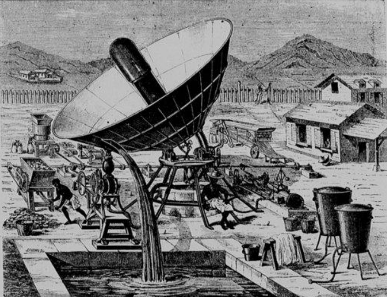 Solar power generation by Mouchot in Algeria